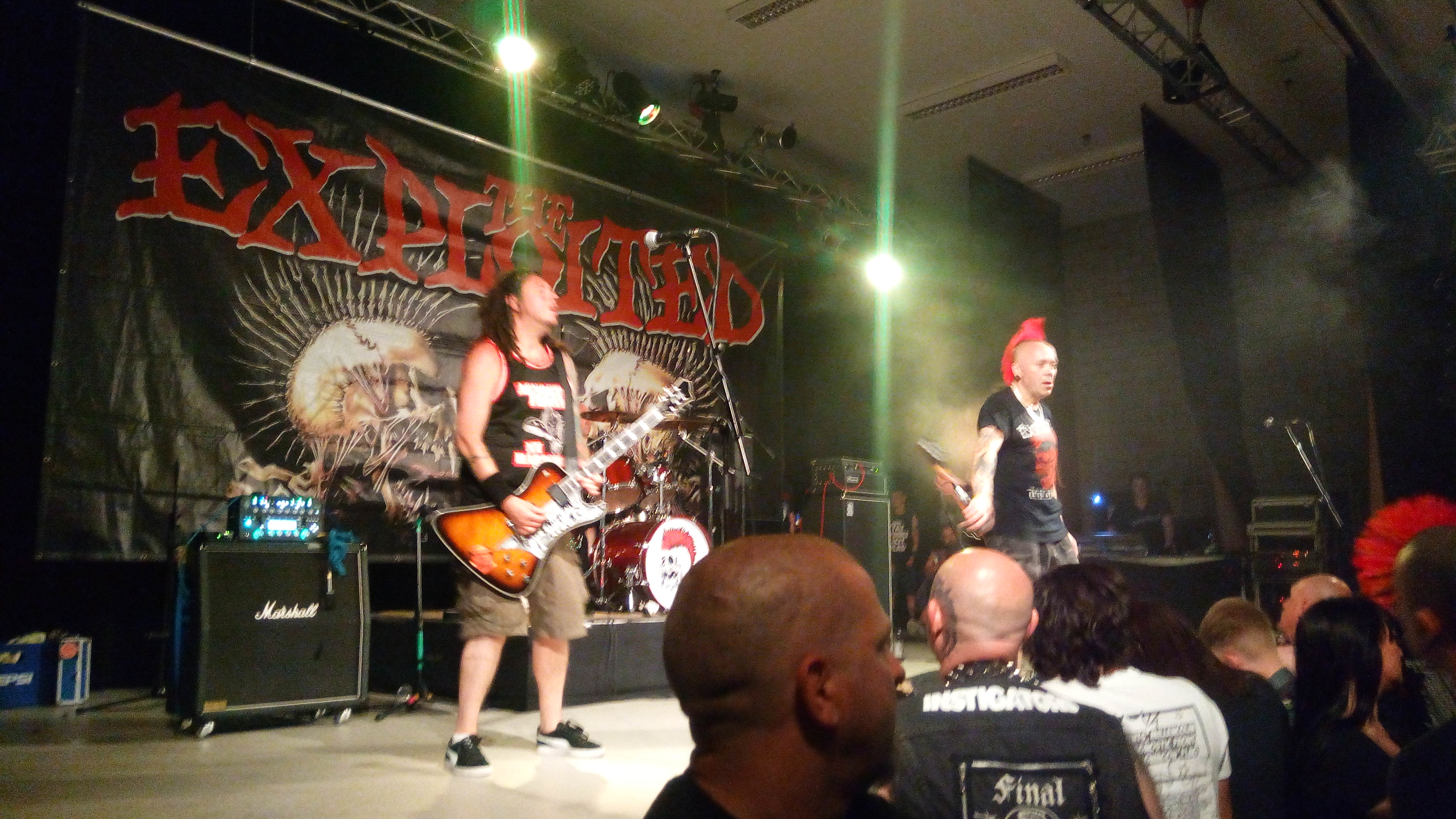 The Exploited in Vorselaar May 2018